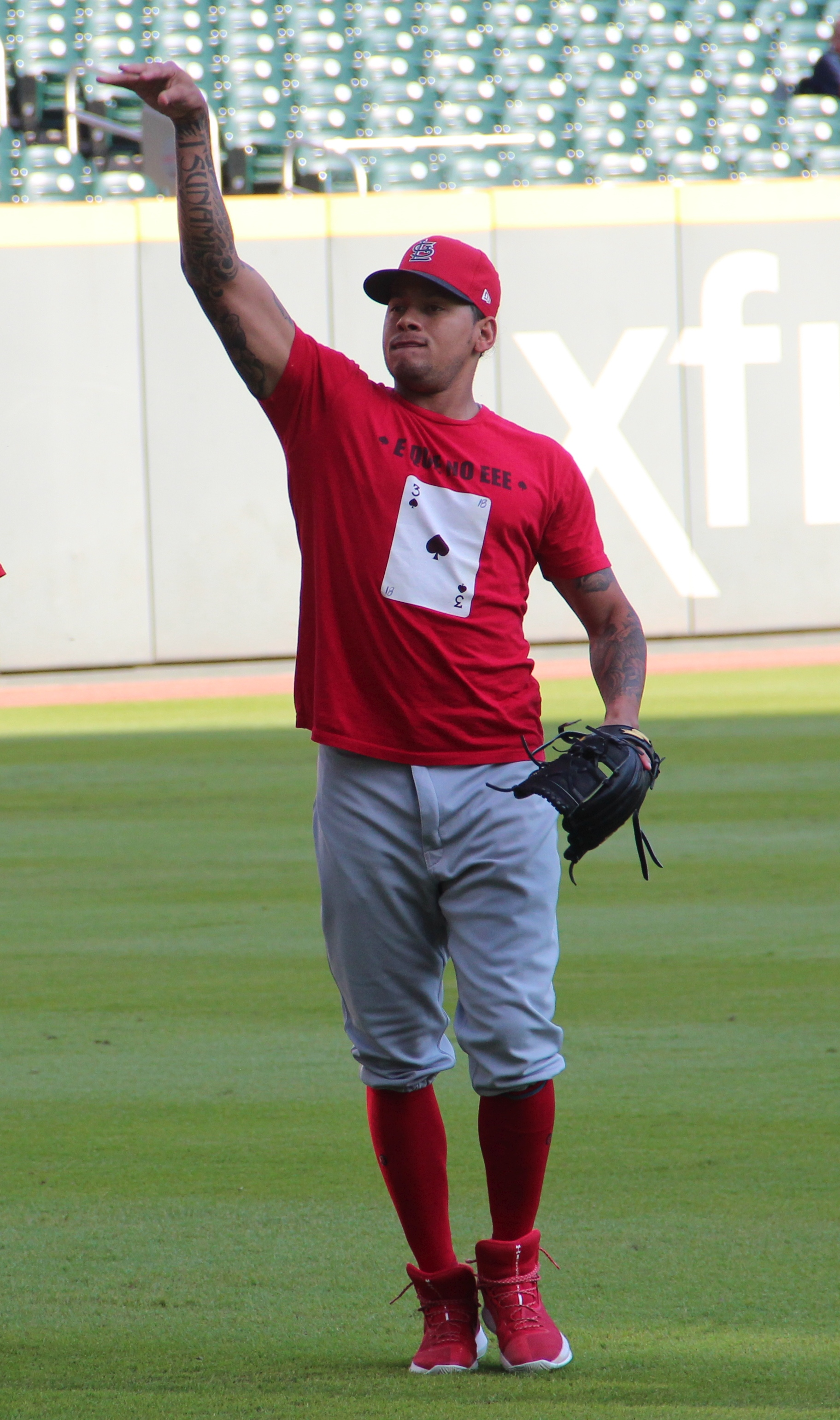 Carlos Martínez, 9-18-2018